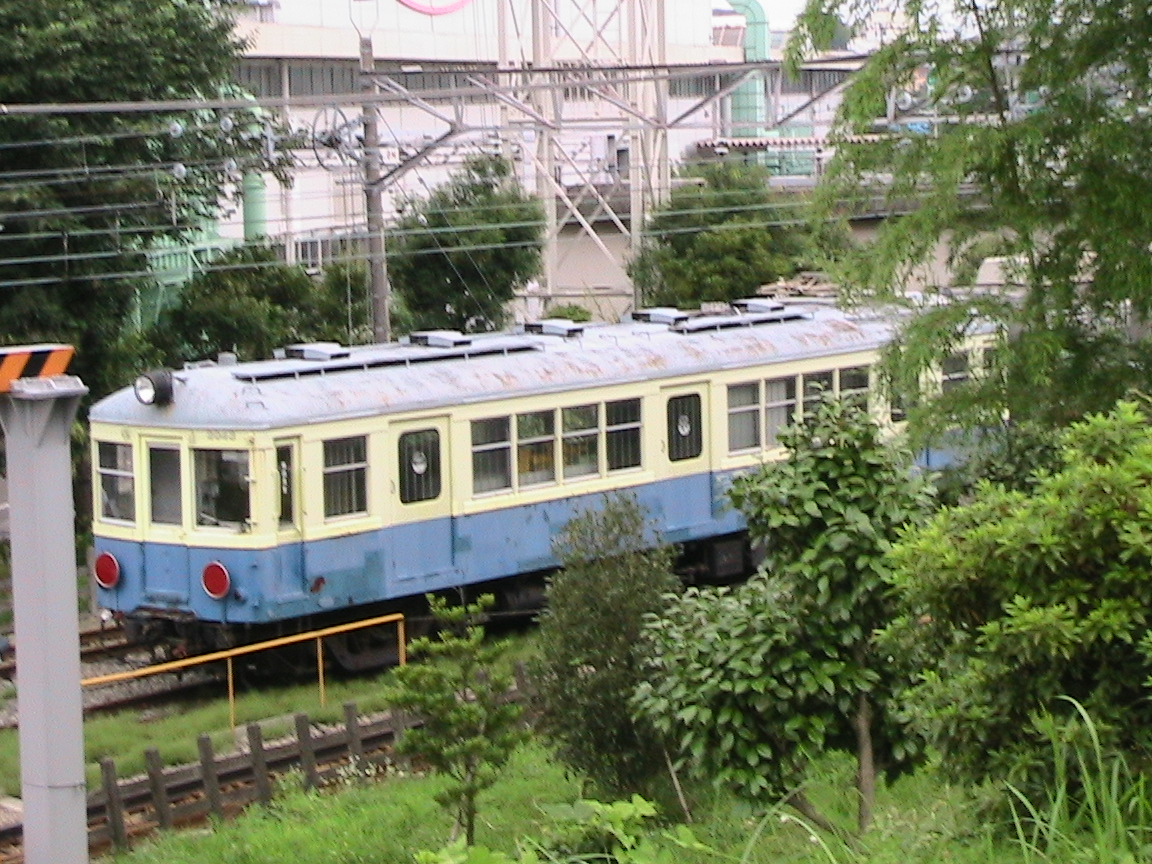 Tokyu corporation's freight car, type dewa 3040